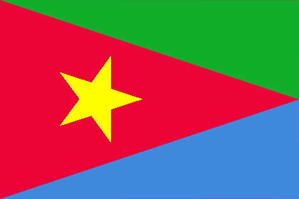 Flag of the Eritrean People's Liberation Front, see FOTW for more about this flag.